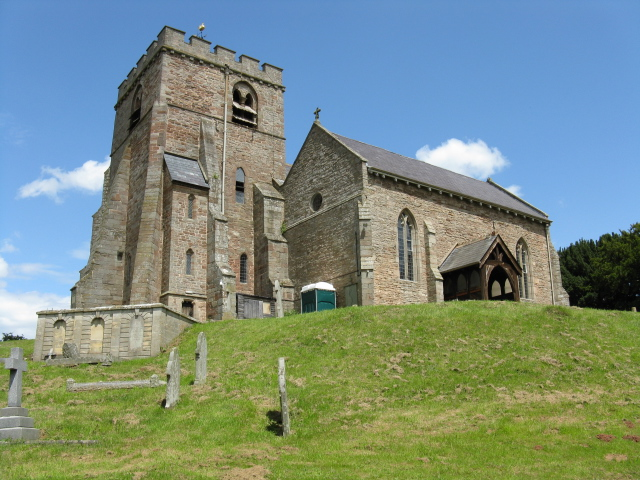 Much Cowarne Church - South Side The church's elevated and very prominent position is obvious.